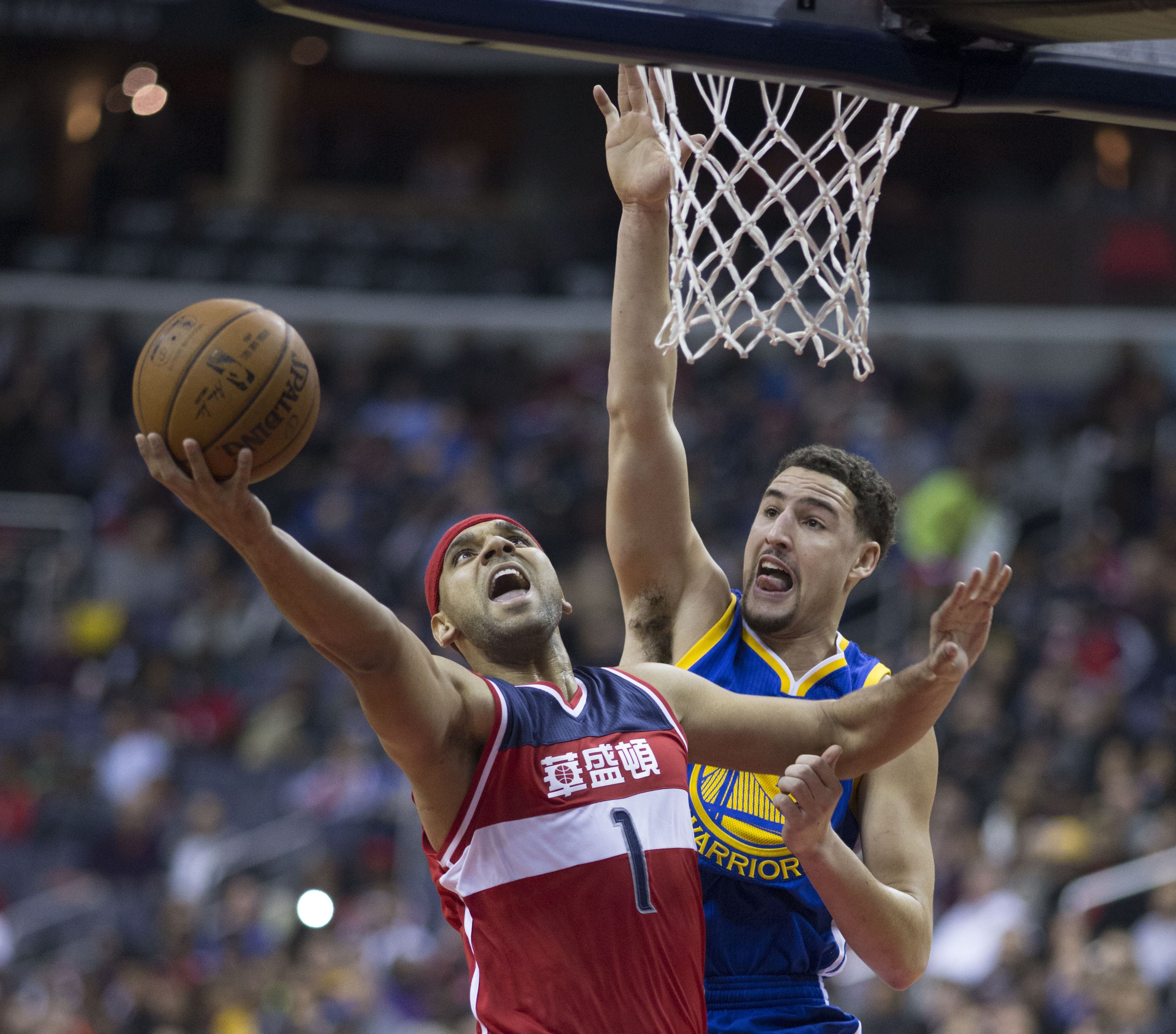 Jared Dudley of Washington Wizard shooting against Klay Thompson of Golden State Warriors